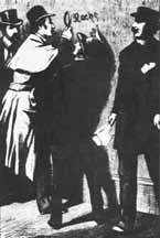 Illustration of Arthur Conan Doyles A Study in Scarlet in Beeton's Christmas Annual